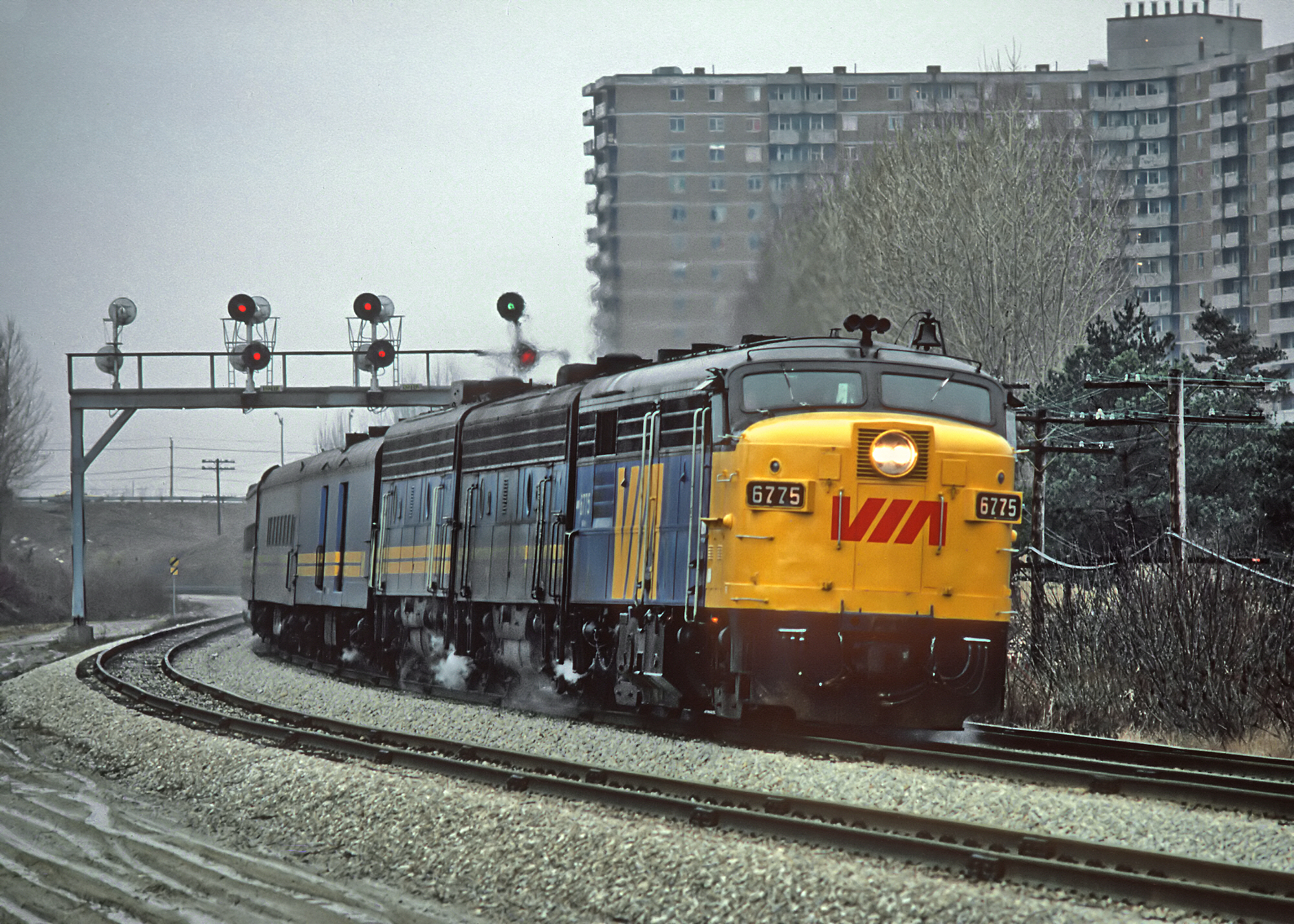 VIA FPA4 6775 on CN's Kingston Sub in the area around Scarborough Golf Club Road.